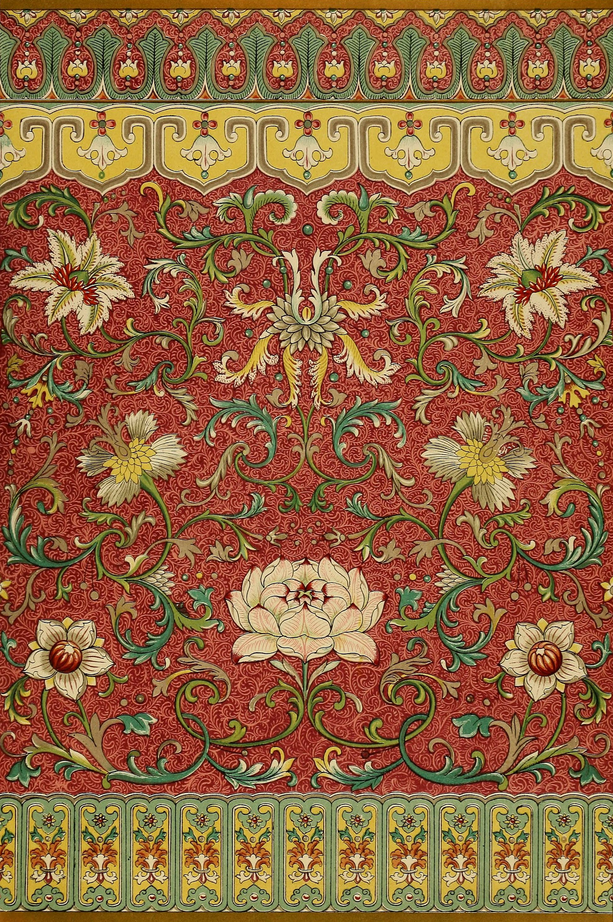 [Detail] Examples of Chinese ornament selected from objects in the South Kensington museum and other collections (1867) In the Mary Ann Beinecke Decorative Art Collection. Sterling and Francine Clark Art Institute Library.